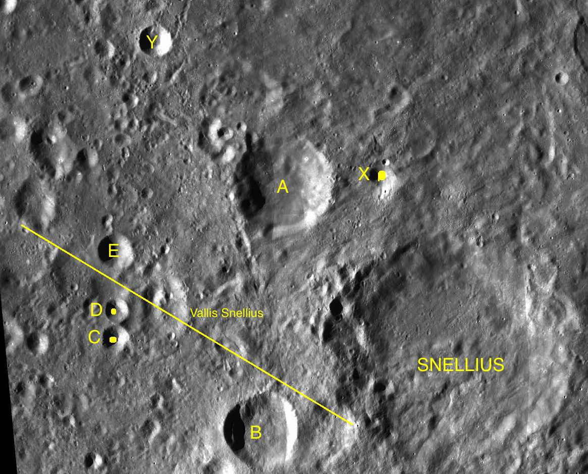 Part of the chart LAC-98 used for the presentation